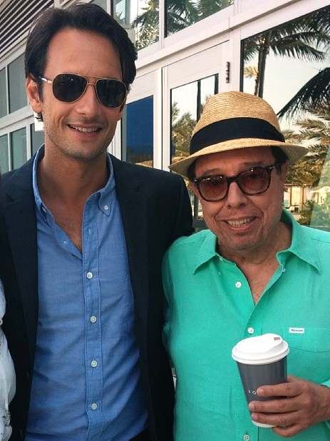 Rodrigo Santoro and Sergio Mendes at the Rio 2 press junket